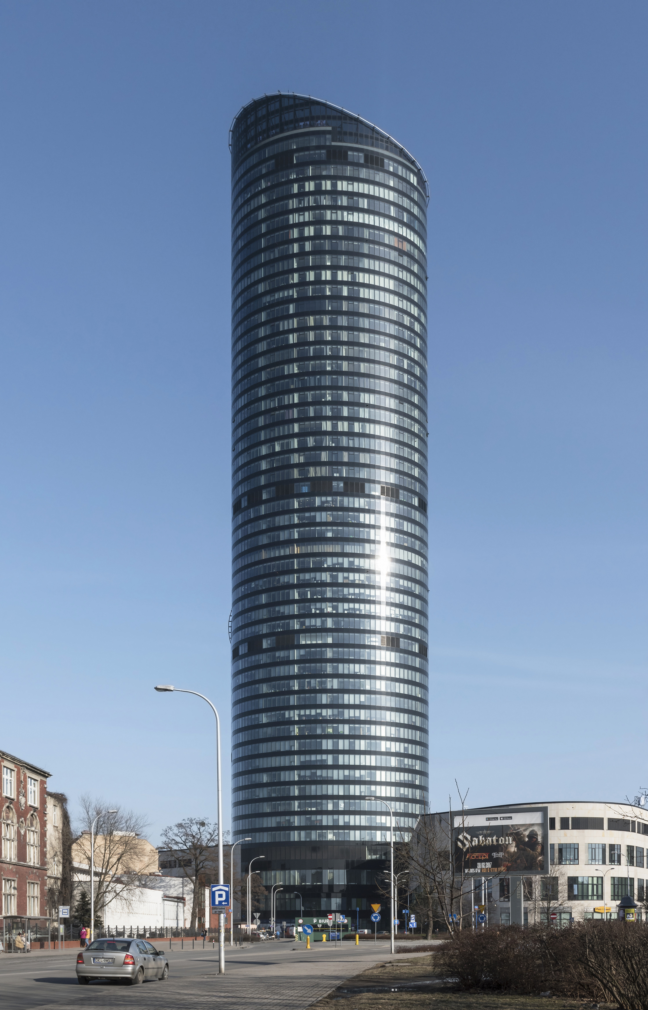 Sky Tower in Wrocław